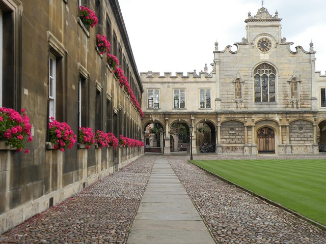 Part of Peterhouse. This is a view of the northeast corner of the Principal Court at Peterhouse. The building on the right is the college chapel that was built in 1632.